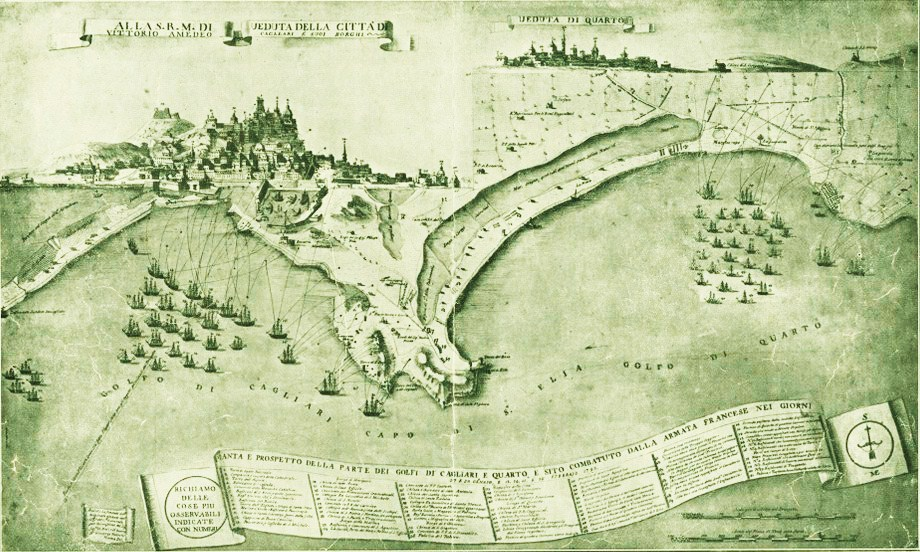 1793 view of Cagliari